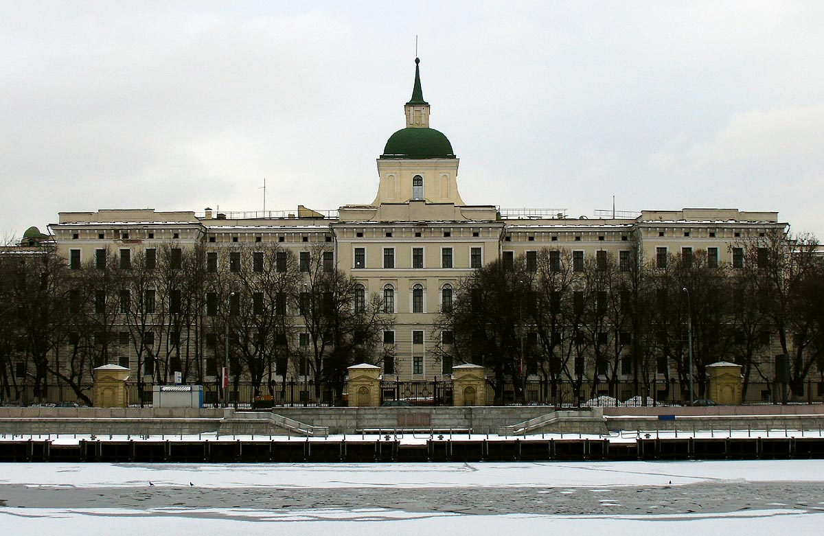 Moscow Orphanage (present-day Academy of Strategic rocket forces)